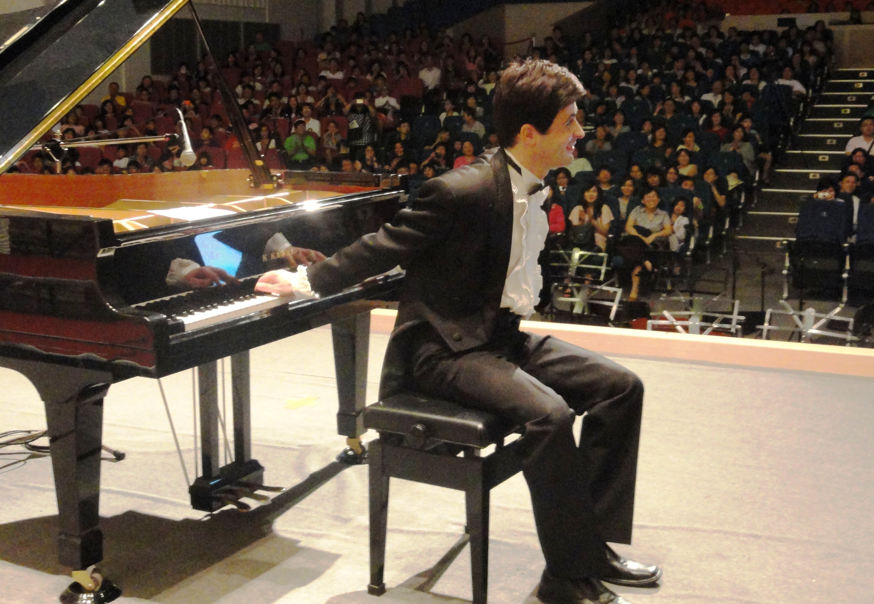 Pianist Giorgi Latsabidze giving a Charity Gala Concert in Taiwan, August 1st, 2010